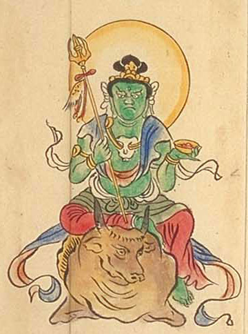 Issaana, Buddhist deities of Japan